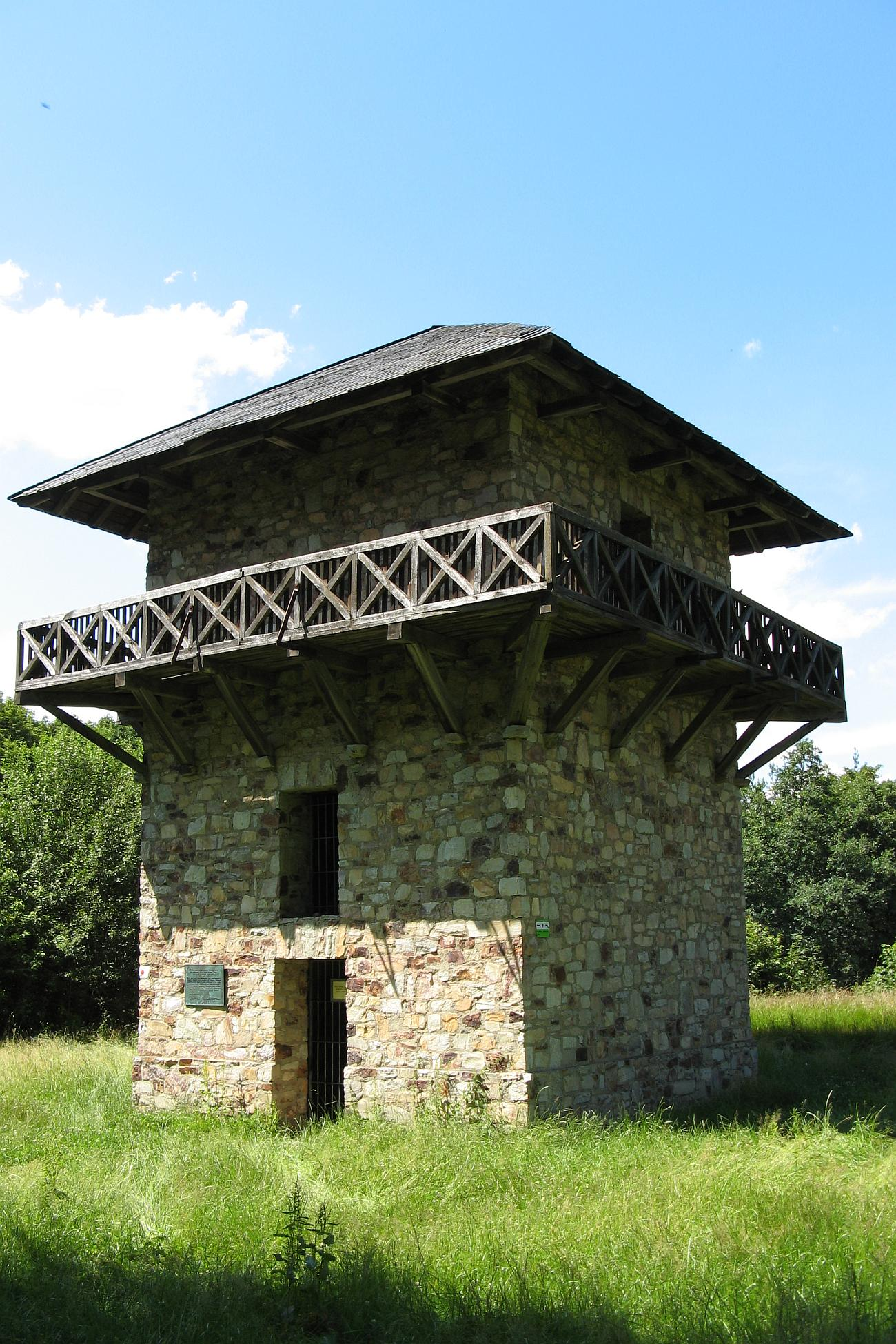 Reconstructed Limes watch tower Wp 3/15, near Kastell Zugmantel, Taunus